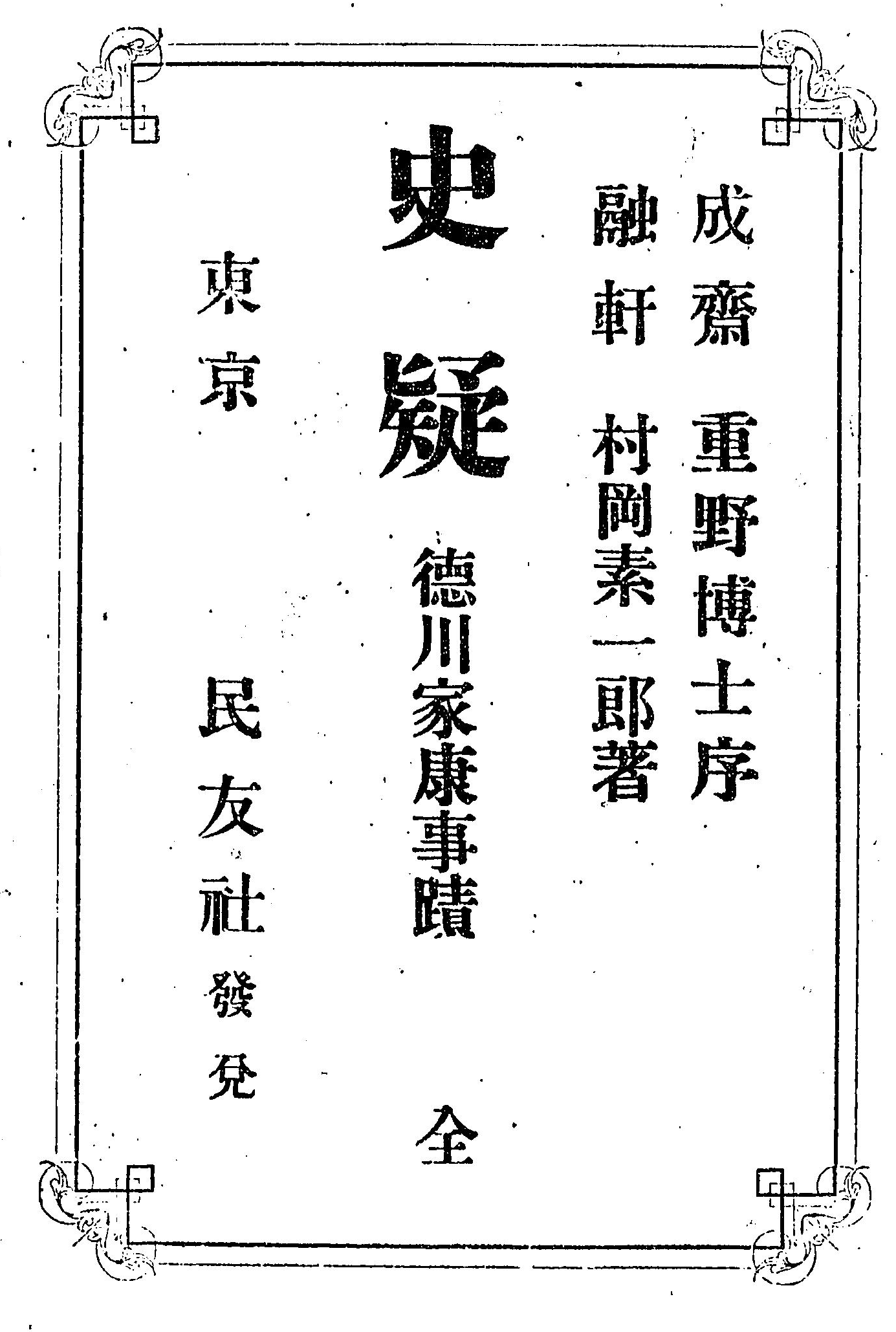 The Cover of Fumitoutagu Tokugawa Ieyasu Jiseki (Template:Lang-ja) 中文（中国大陆）: 《史疑 德川家康事迹》的封面